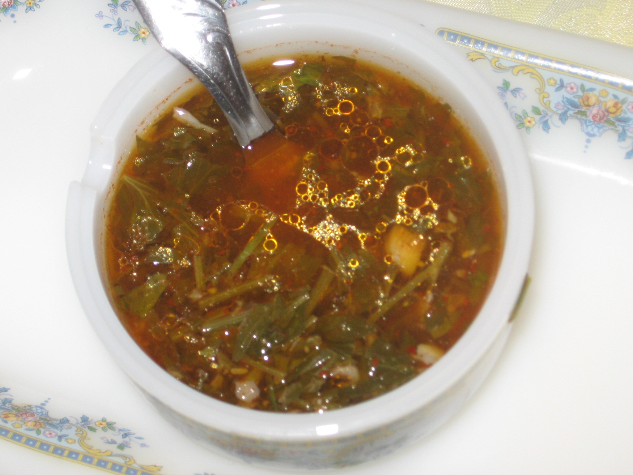 Chimichurri. my mother-in-law made it.